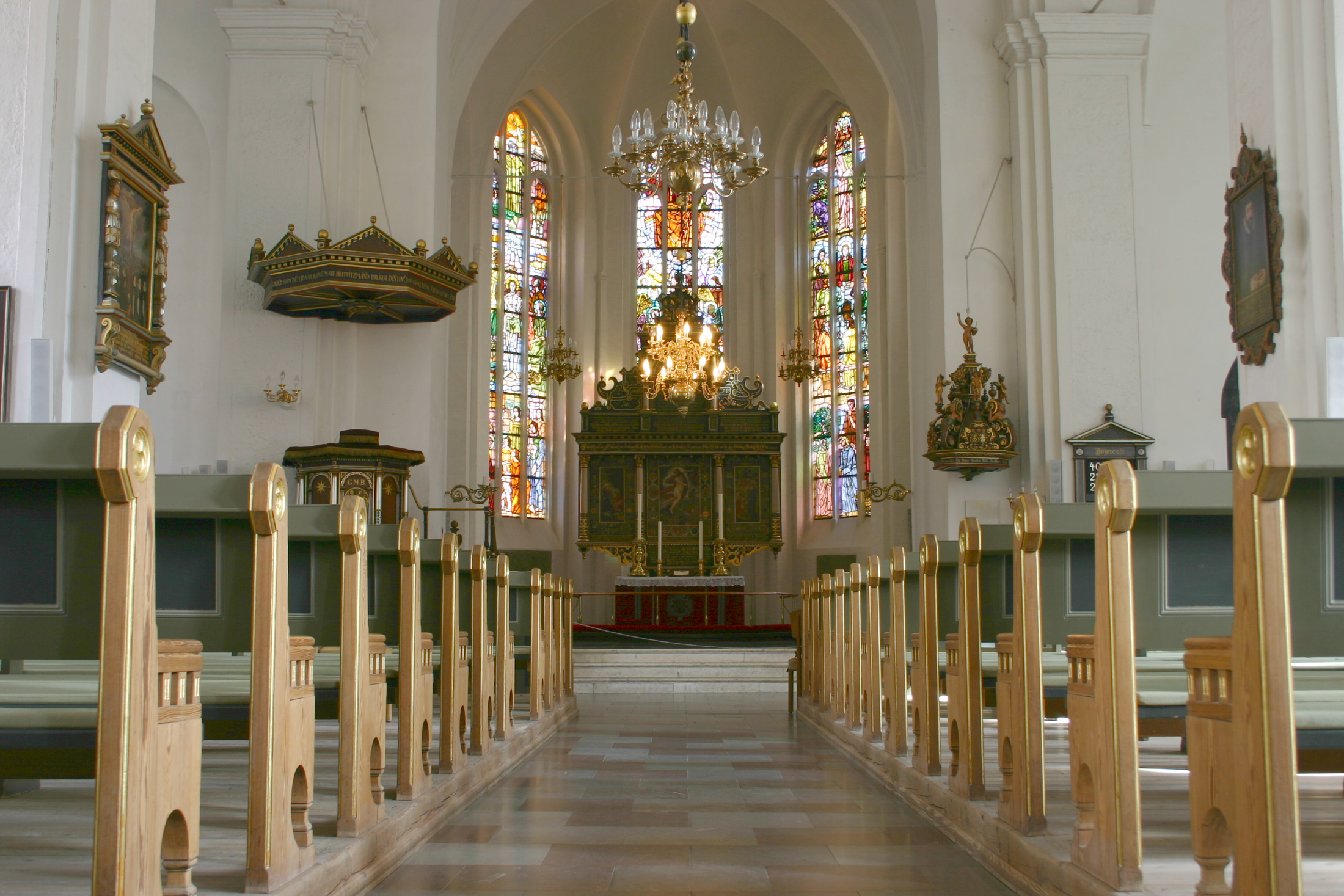 Interior of Sct Nicolai kirke in Kolding, Denmark.2008